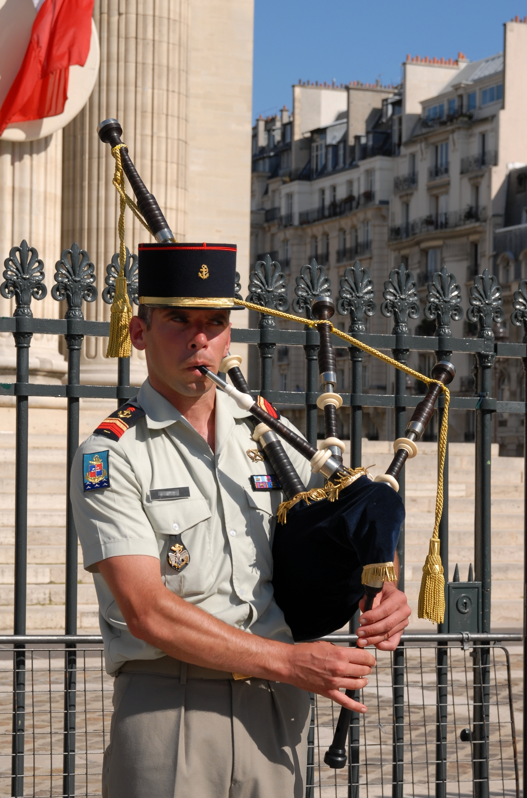 A soldier of the 3e RIMa (a unit of the French marine troops) playing the bagpipes in front of the Panthéon in Paris, during the ceremonies of Bastille Day.